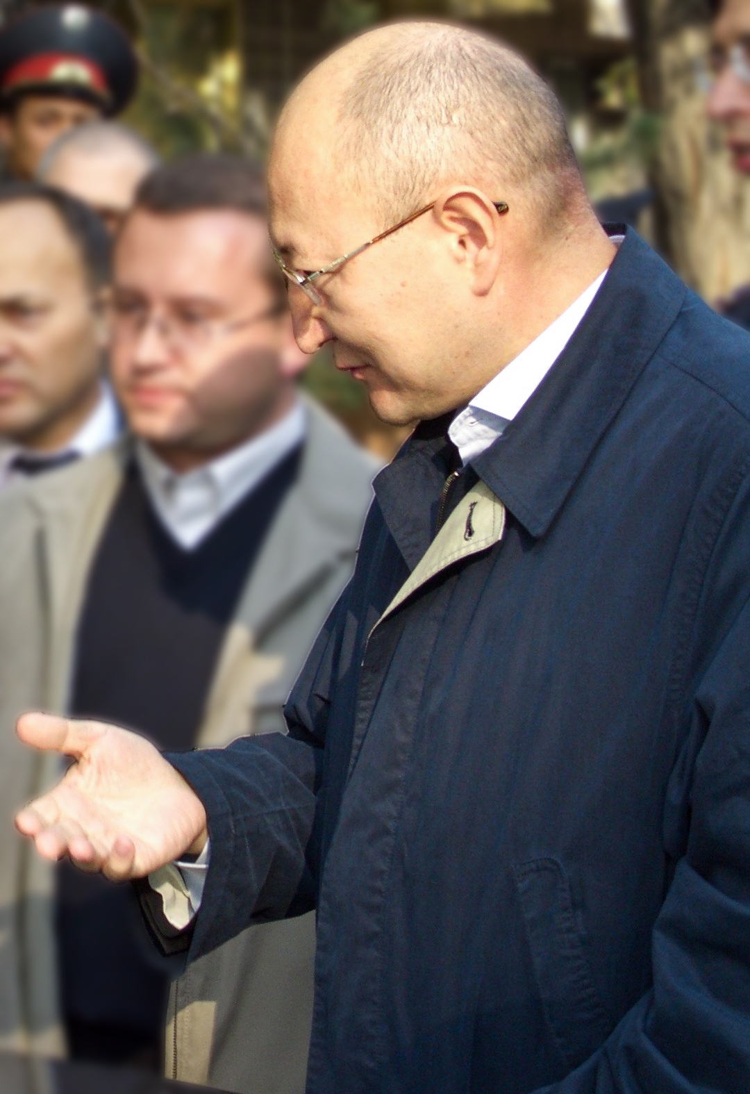 Sarsenbayuly Altynbek